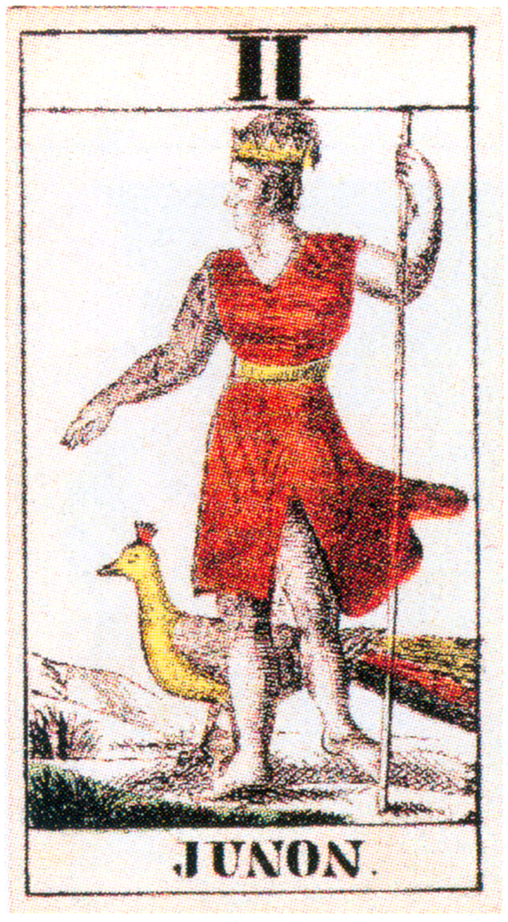 Tarot card II Junon of Swiss Tarot 1JJ